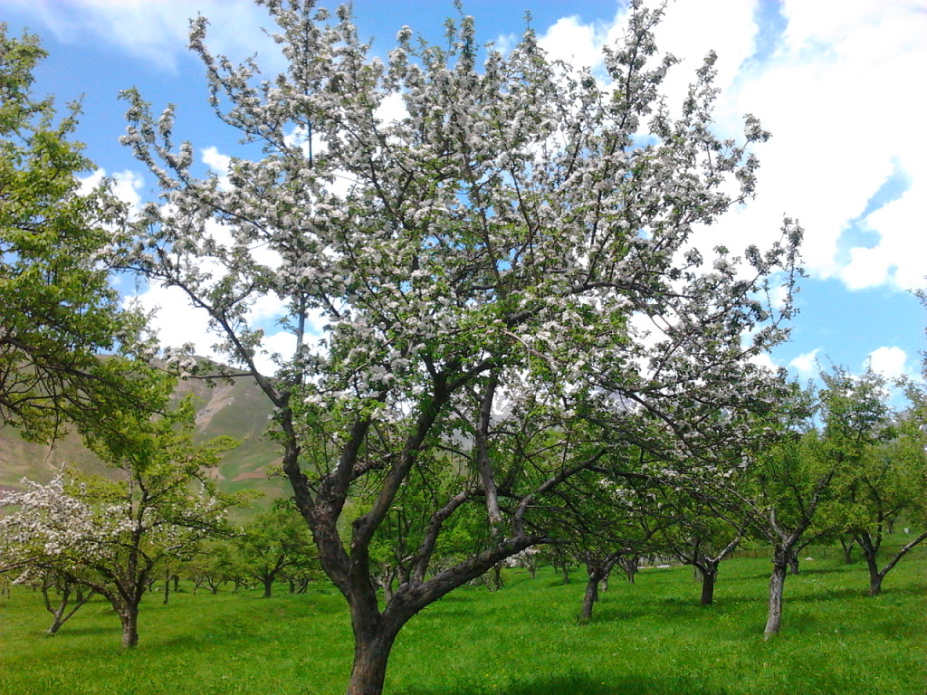 zarkamar-3